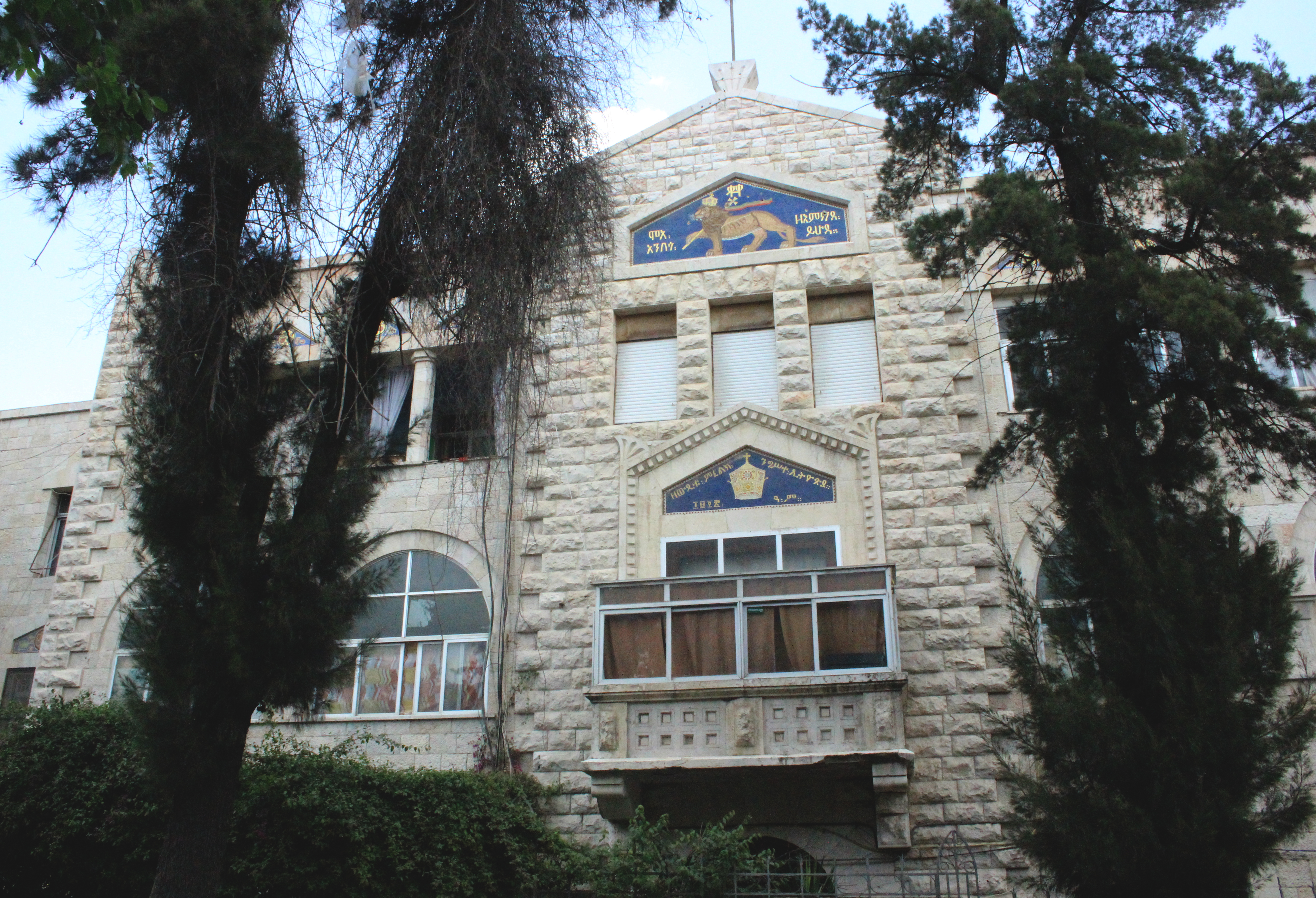 Jerusalem is also known as "Ariel" (Lion of God) and belongs to the tribe of Judah that his symbol is the lion. The lion is a constant symbol in Jerusalem. In photography, a residential building erected in 1928 with funds provided by the ethiopian empress Zauditu to house her country´s consulate and for rental. The decorative mosaic gable on the facade displays the emblem of the ethiopian monarchy and has an inscription in geez: "The Lion of the tribe of judah has triumphed". Photographic Collection Jerusalem Lions.